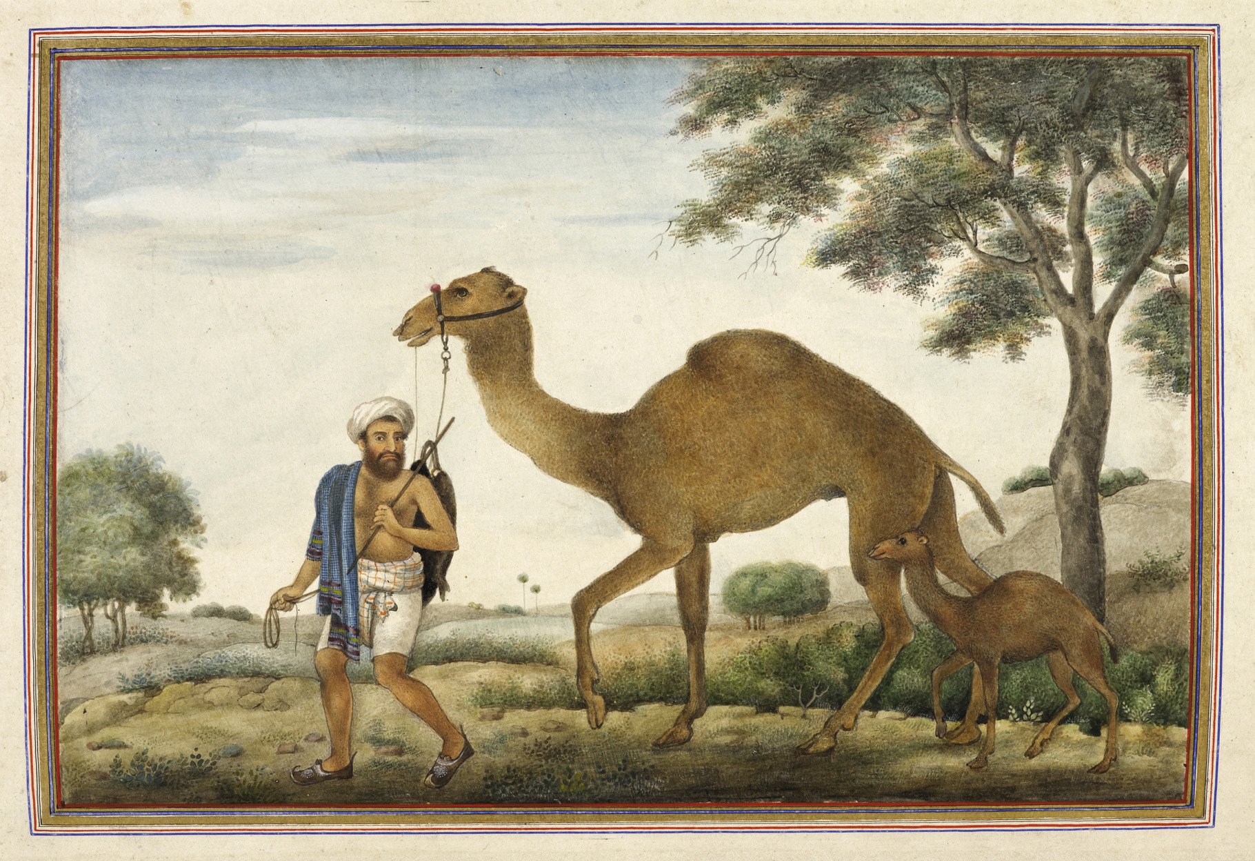 Ribari, a caste of camel-men.